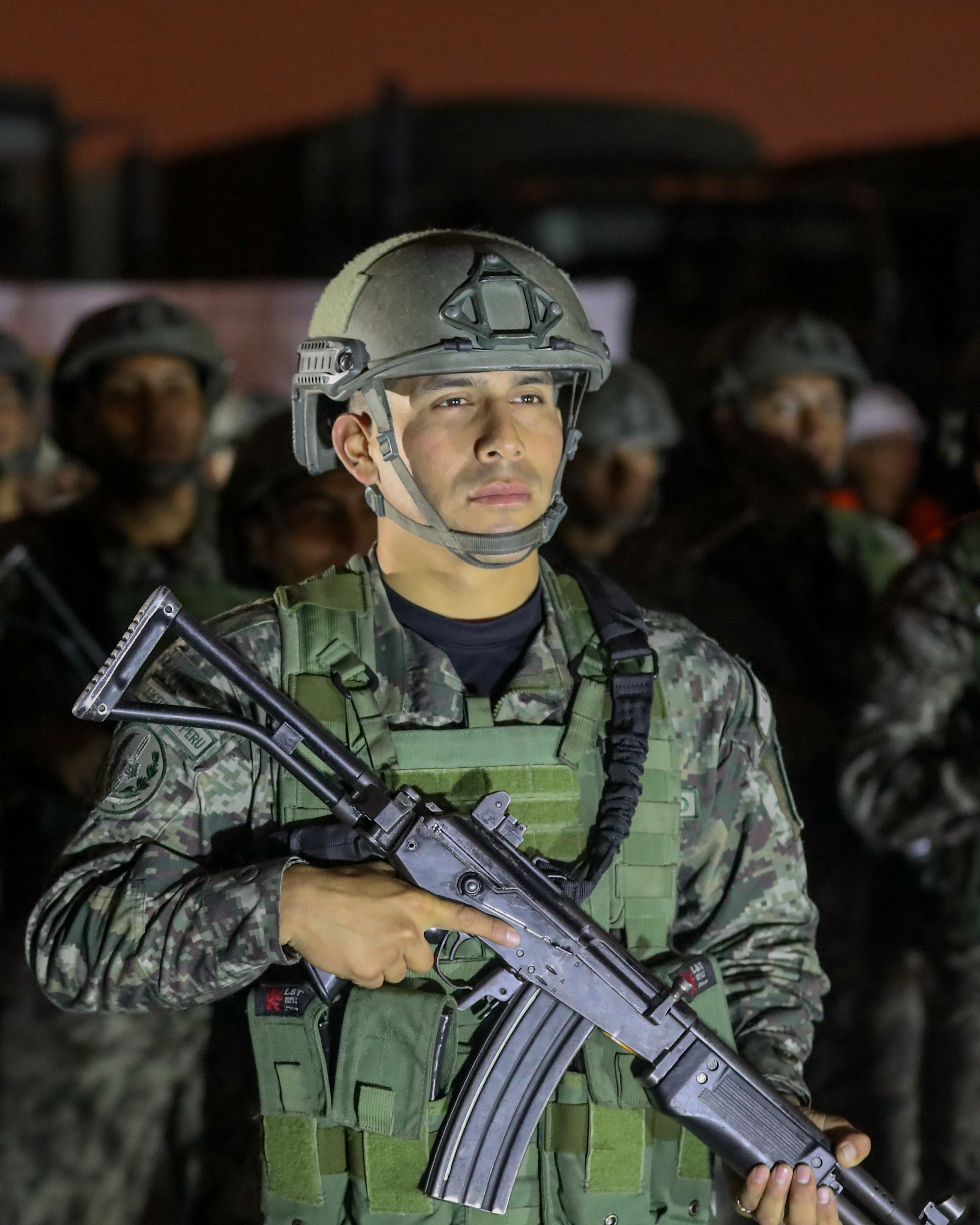 Soldier of the Peruvian army in May 2019